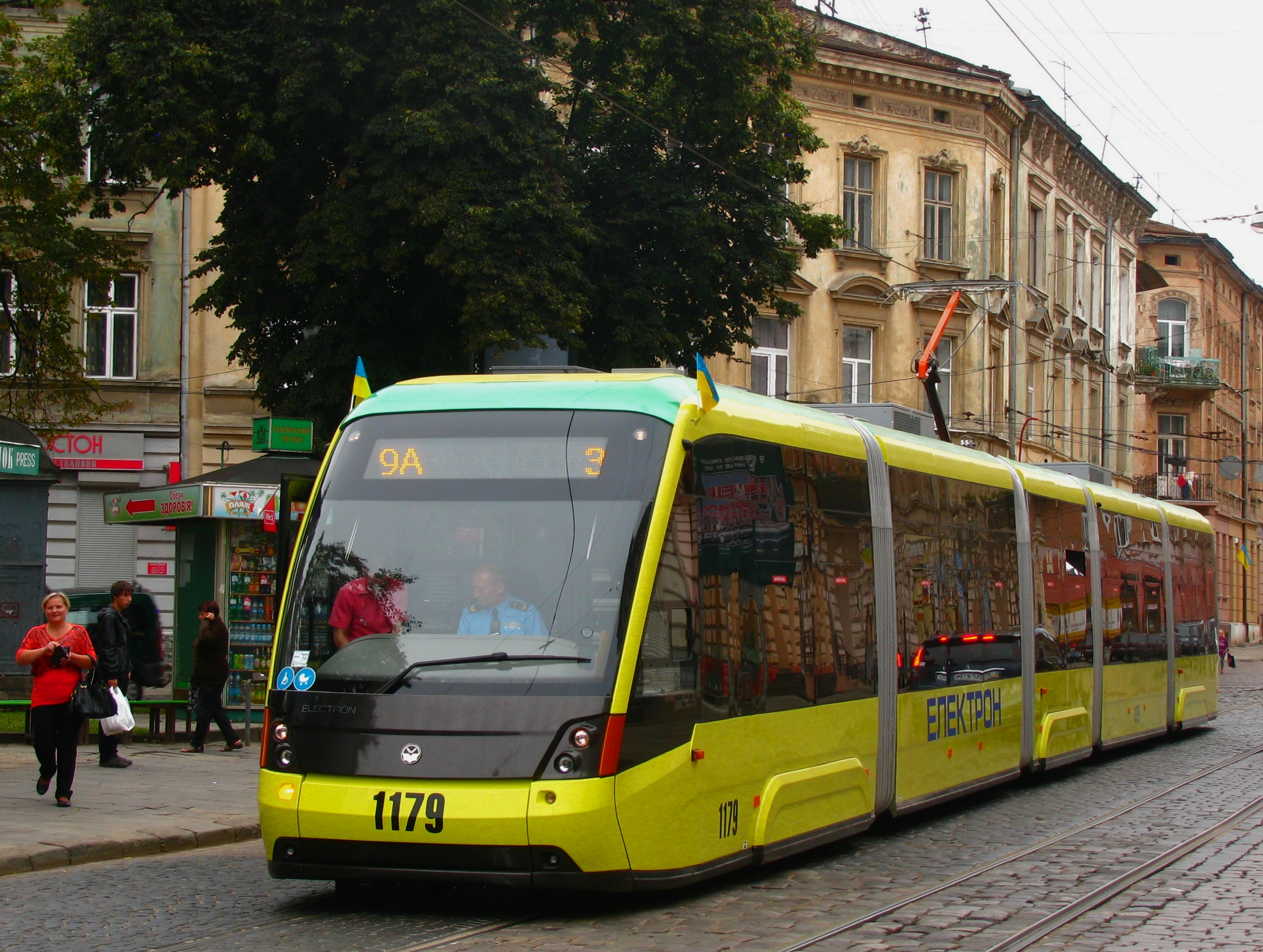 Tram Electron T5L64 on Franka square in Lviv, Ukraine